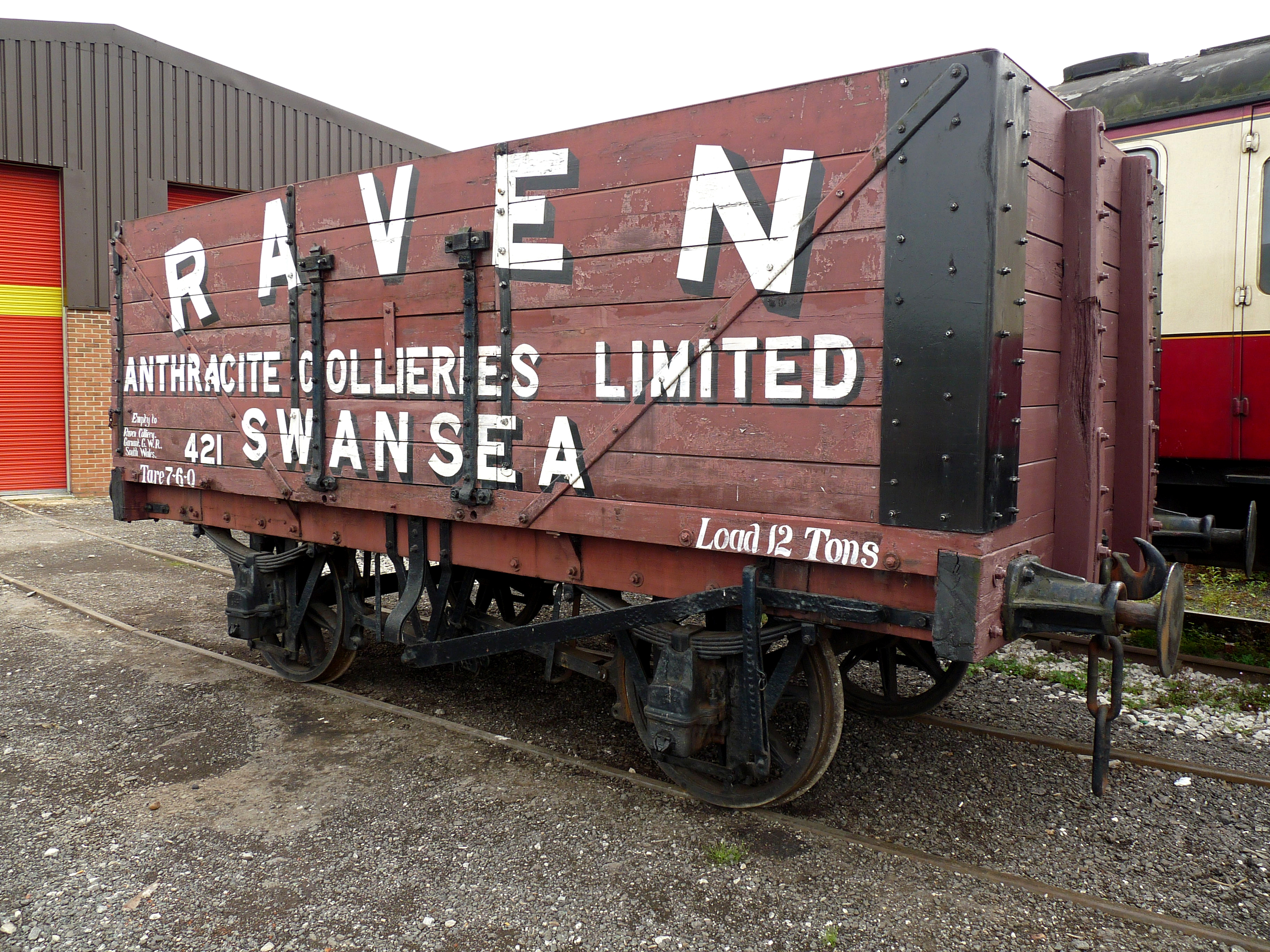 Old Colliery Wagon. part of the Midland Railway Centre preserved railway near Ripley.